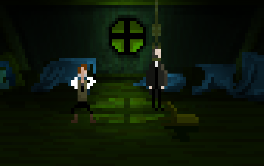 using the assets from here released to Commons.